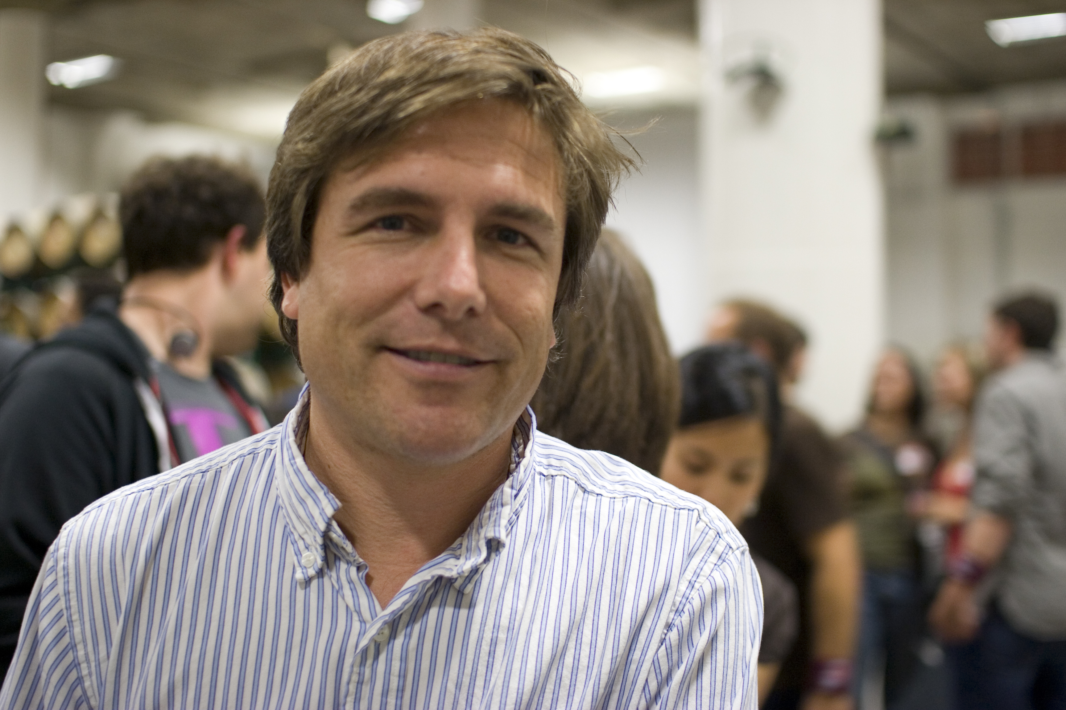 Jim Louderback, CEO of Revision 3 at CrushPad